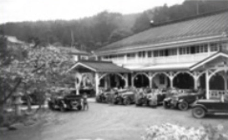 Kanaya Hotel at Nikko, Japan, 1916